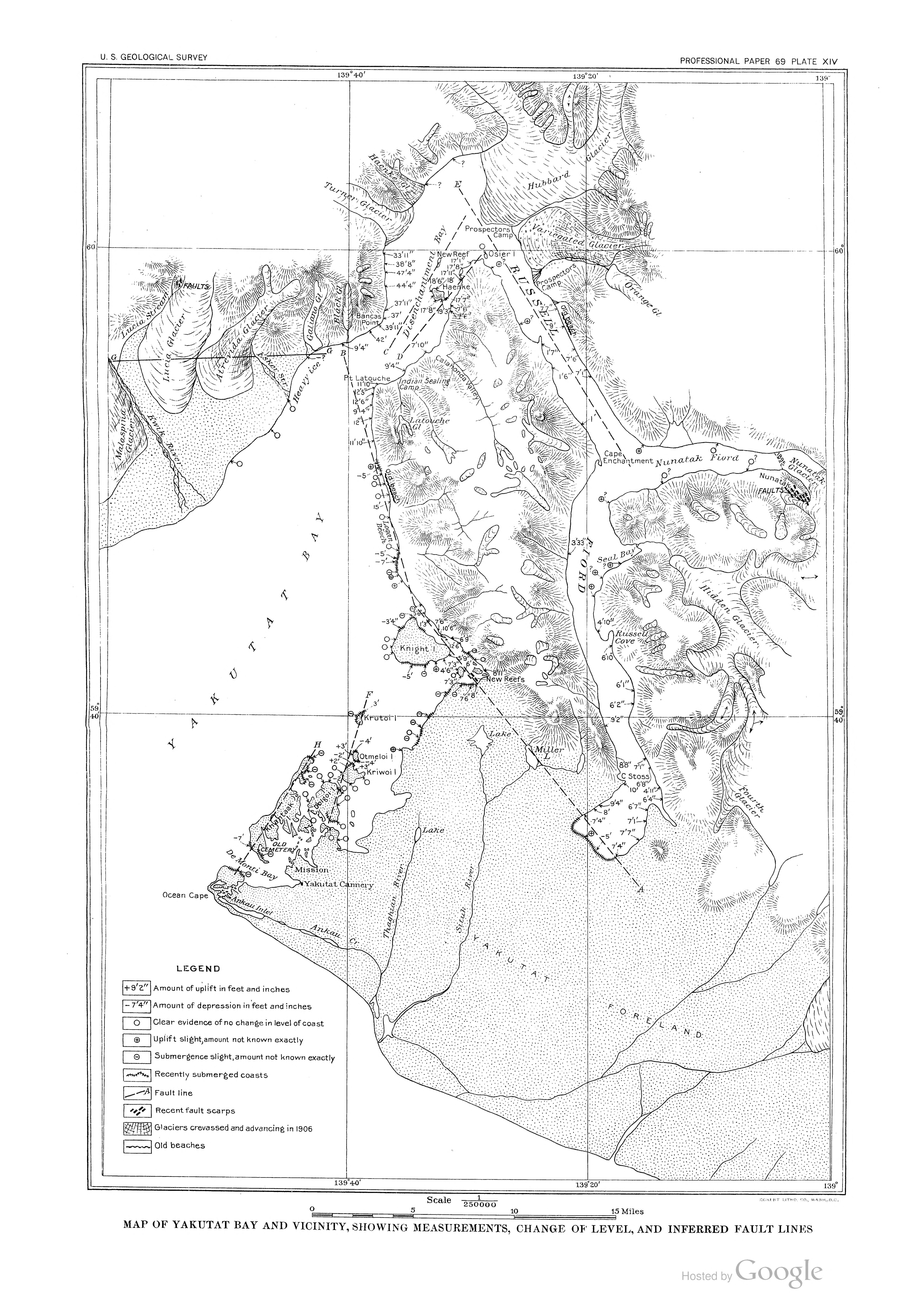 Plate XIV from Tarr, R.S. The Earthquakes At Yakutat Bay Alaska In September 1899 showing measurements, change of level, and inferred fault lines